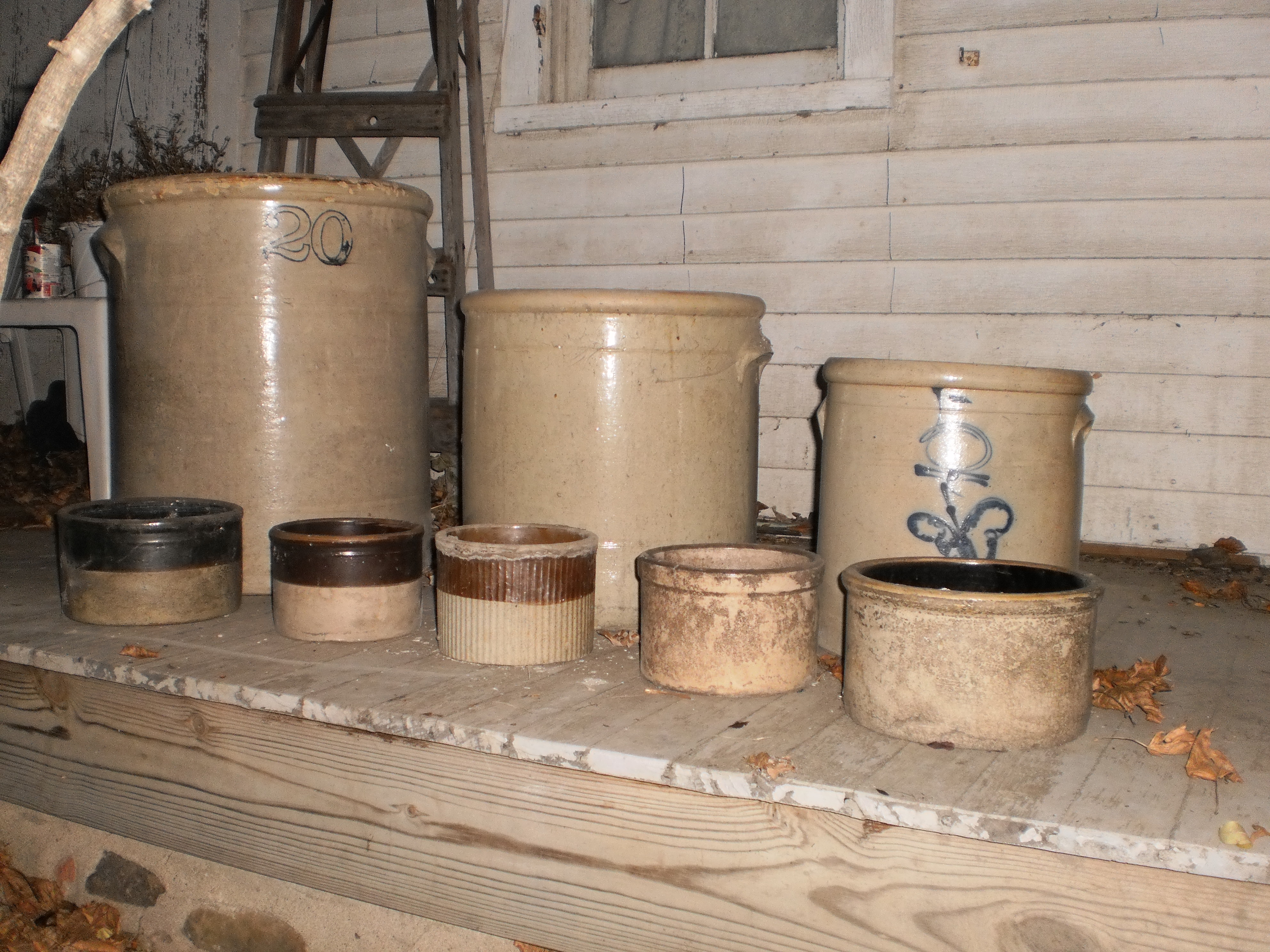 Antique stoneware crocks